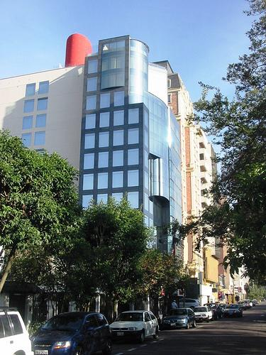 Republica del Salvador Avenue